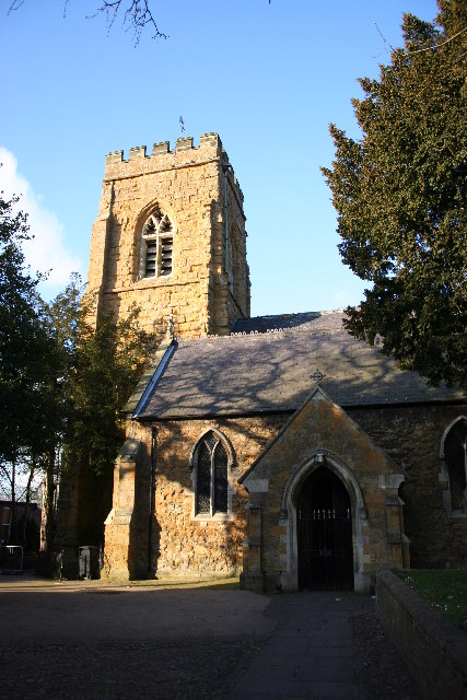 St.Thomas' church, Market Rasen, Lincs. Perpendicular tower, the rest mostly 1862